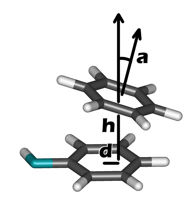 Some parameters of pi-stacking interactions are illustrated